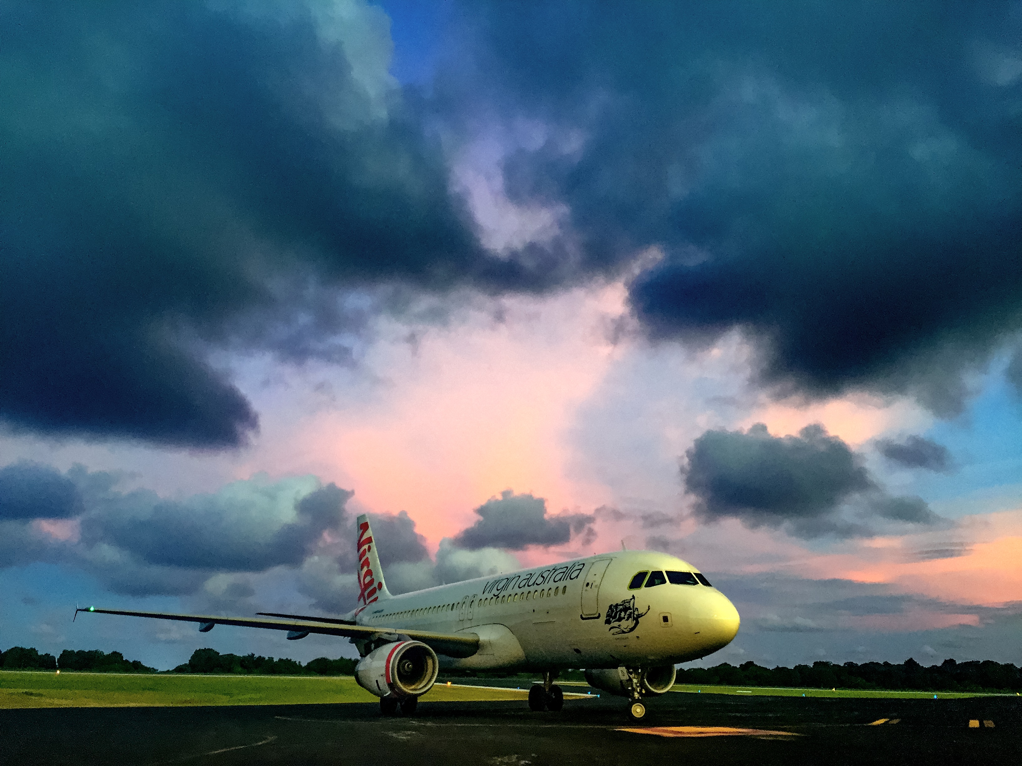 Virgin Australia Regional Airlines Airbus A320 (VH-YUD) at Christmas Island Airport operating last flight of 2016